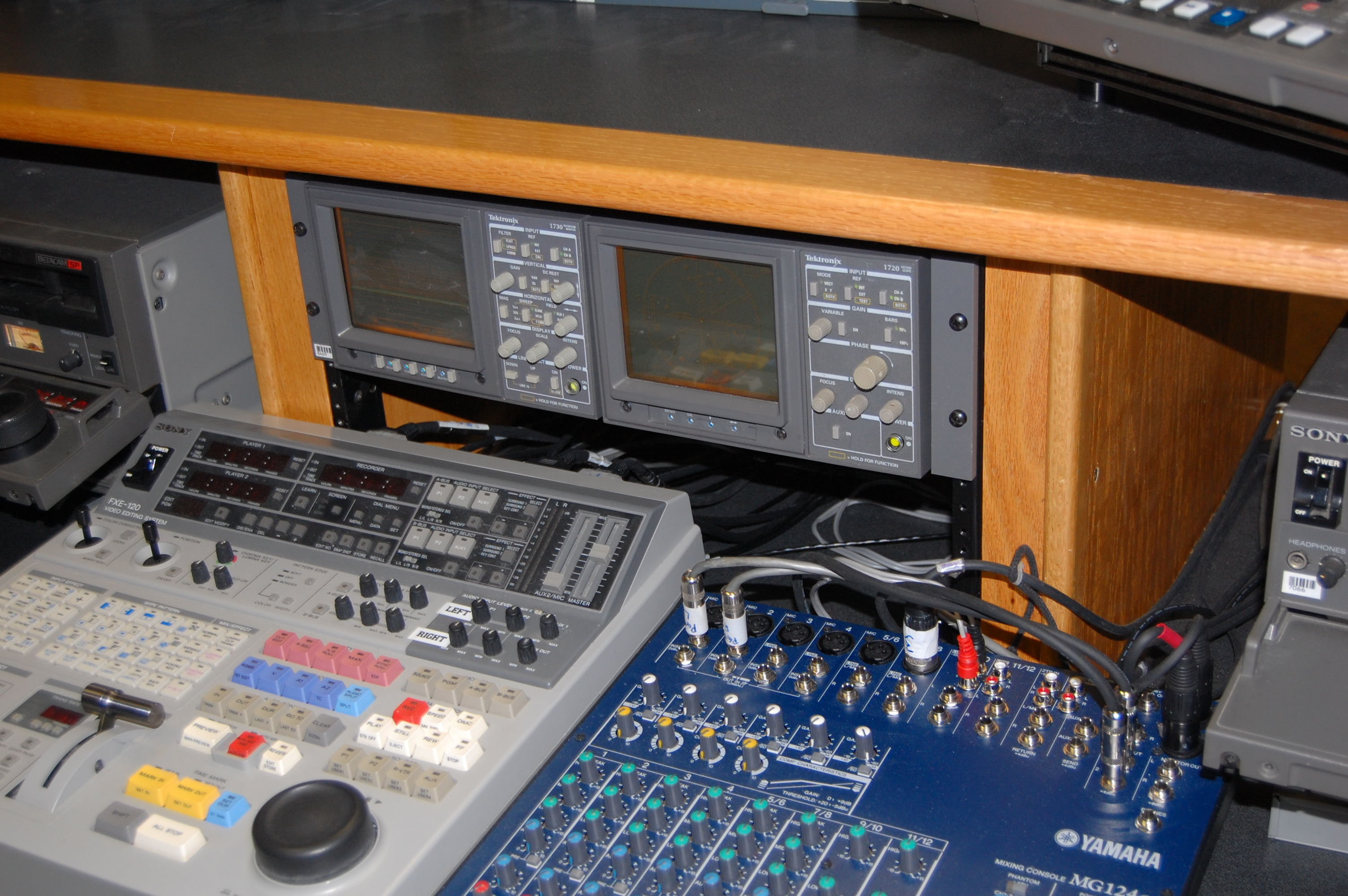 Post production equipments 1, Due Process production, Rutgers University